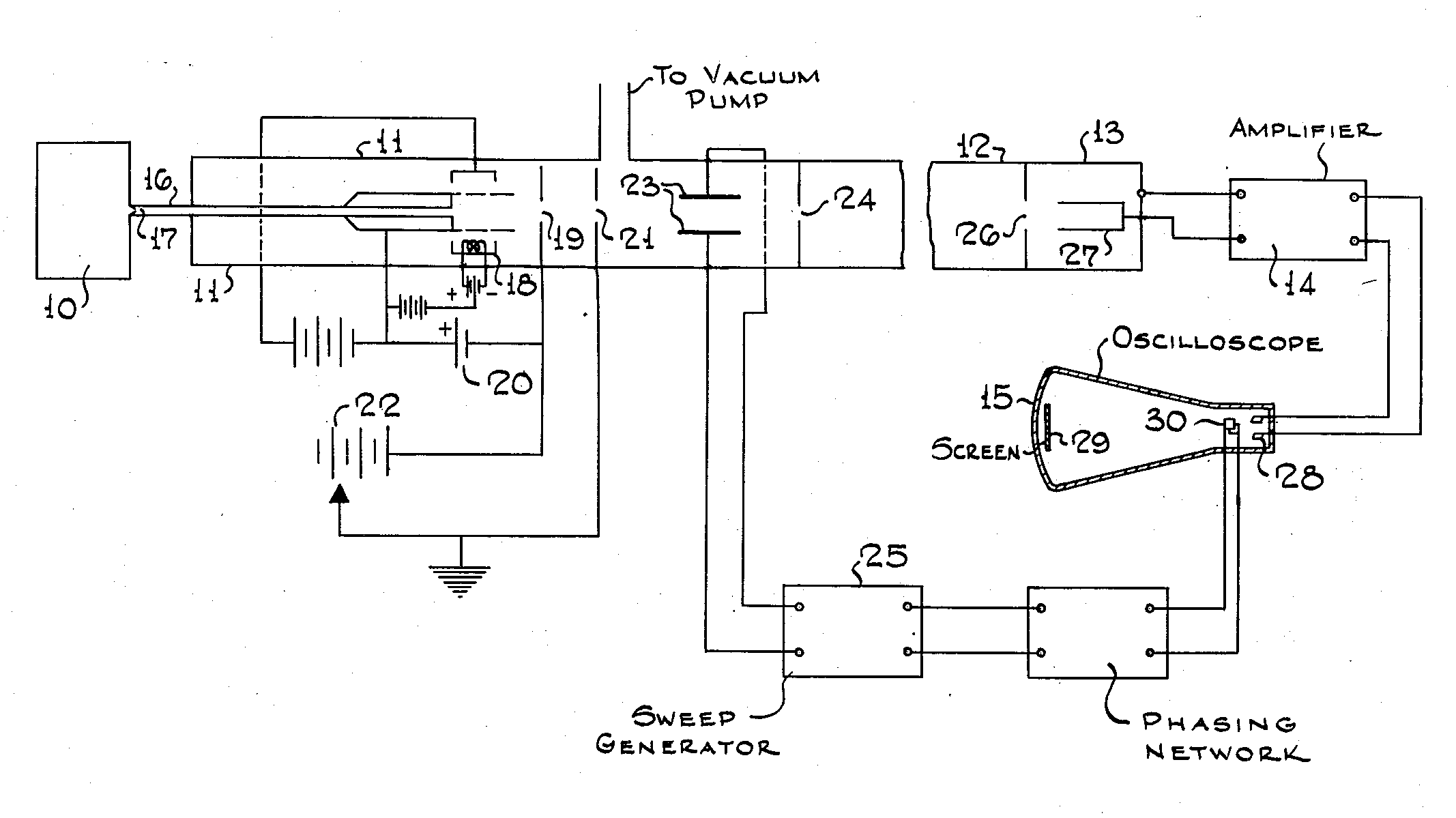 Stephens time-of-flight mass spectrometer patent Patent number: 2612607 Filing date: Apr 5, 1947 Issue date: Sep 1952 Inventor: William E. Stephens